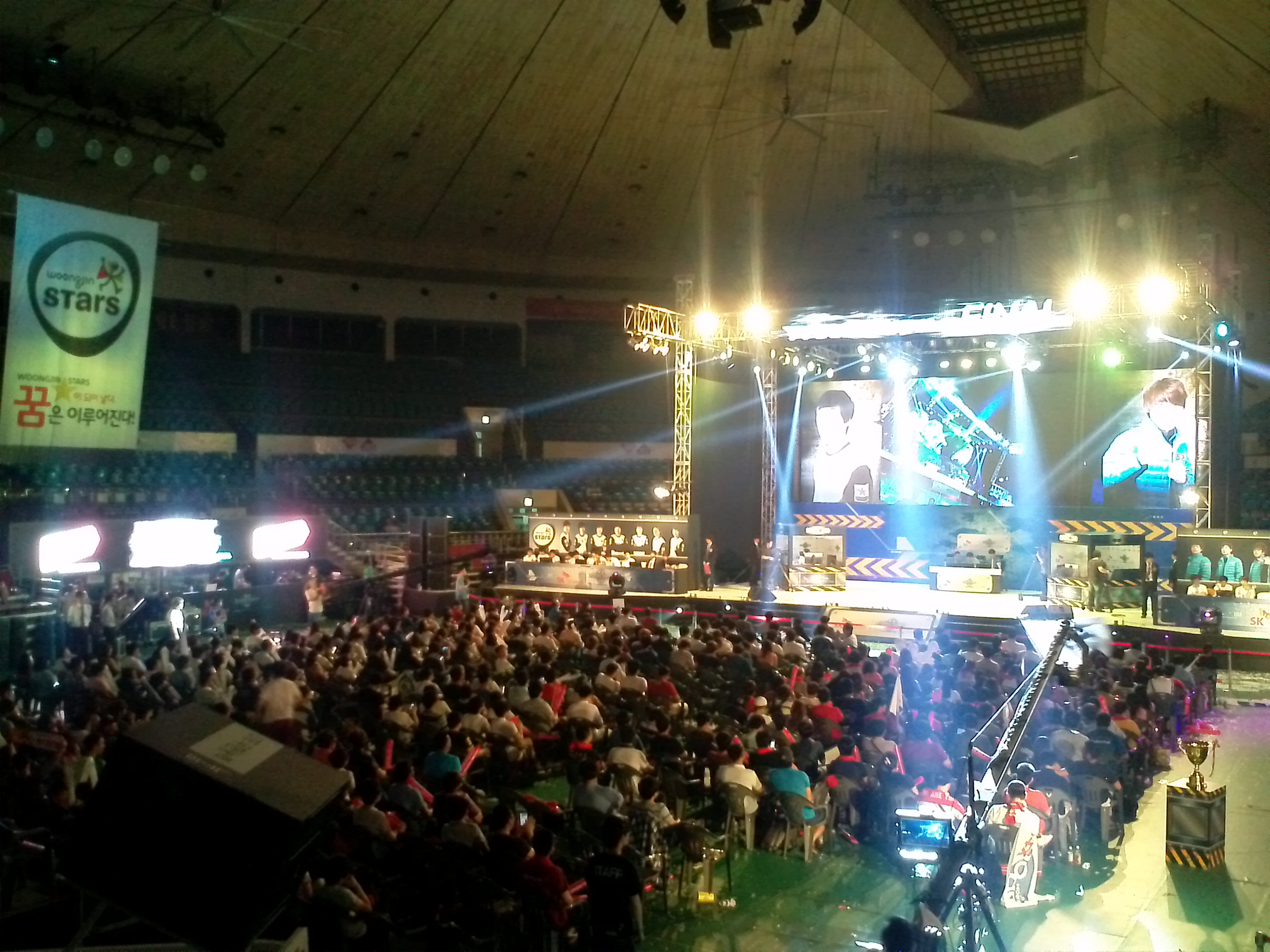 SKplanet Starcraft II Proleague Final at jamsil gym